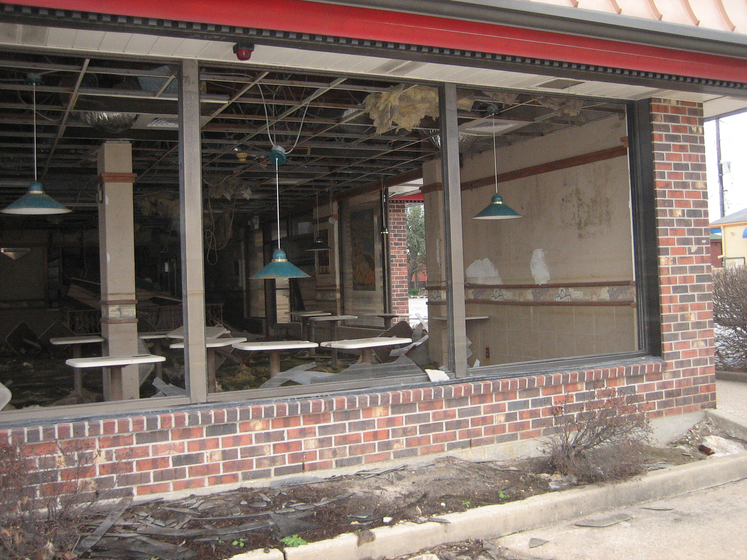 Scene in commercial section of formerly Hurricane Katrina storm surge flooded Chalmette, Louisiana. Damaged fast food restaurant.